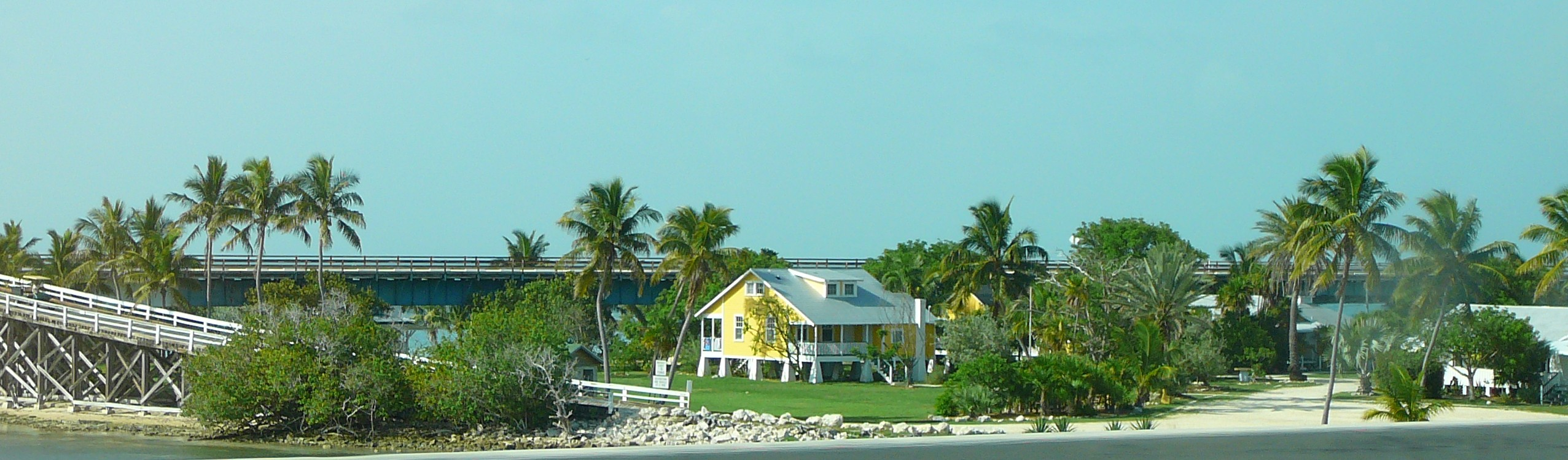 Digital photo taken by Marc Averette. Partial view of the small island of Pigeon Key off of the Seven Mile Bridge in the Florida Keys 6/23/2008.